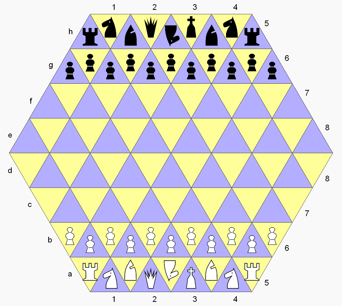 icons from Chess Utrecht (Hans Bodlaender); notation synthesis of Caevra (Jens Meder, inverted Klin Zha) and hex notation (Christian Freeling); all done in MS PAINT